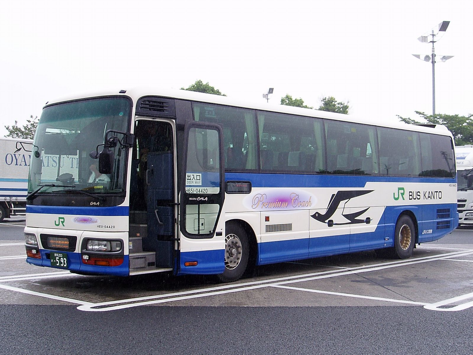 JR Bus Kanto H651-04420 "Joshu Yumeguri"(Premium Coach) Isuzu KL-LV774R2 at Kamisato Service Area